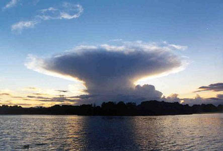 Cumulunimbus or thunder cloud seen in Copenhagen, Denmark.